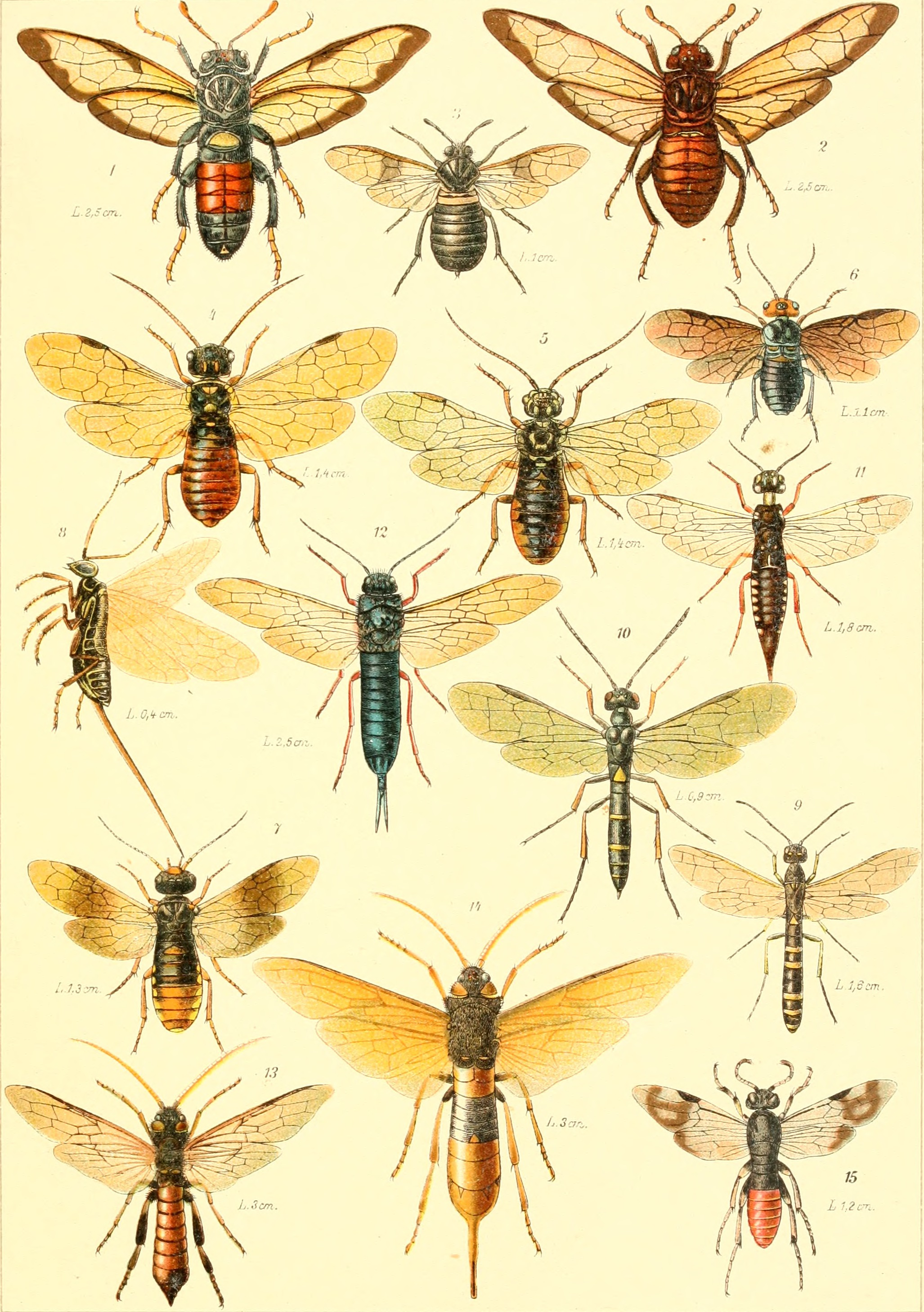 Title: Die insekten Mitteleuropas insbesondere Deutschlands Year: 1914-(26) (1910s) Authors: Schroder, Christoph Wilhelm Marcus, 1871-; Enslin, Eduard; Friese, Heinrich, 1860-1948; Kieffer, Jean Jacques, 1856-1925; Schmiedeknecht, Otto, 1847-1936; Stitz, H Subjects: Insects -- Germany; Hymenoptera Publisher: Stuttgart, Franckhsche verlagshandlung Text Appearing Before Image: Schroeder, Insektenwelt Mitteleuropas, Band III Abtlg. Enslin Tafel IV. Text Appearing After Image: 1. Cimbex femorata var. siivarum F. d". 2. Cimbex femorata var. griffinii Leach. ? . 3. Abia fasciata L. 9 . 4. Cephaleia abietis L. ? . 5. Acantholyda stellata Christ. 9 . 6. Acantholyda erythrocephala L. 9 . 7. Neurotoma flaviventris Retz. 9 . 8. Xyela longula Dalm. 9 . (nach Konow-Wytsman, Genera Insectorum). 9. Hartigia linearis Schrnk. 9 . 10. Cephus pygmaeus L. 9 . 11. Xipltydria camelus L. 9 . 12. Paururus juvencus L. 9 . 13. Sirex gigas L. cf (nach Konow-Wytsman, Genera Insectorum). 14. Sirex gigas L. 9 (nach Konow-Wytsman, Genera Insectorum). 15. Oryssus abietinus Scop. 9 .